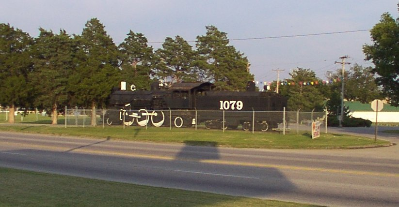 Atchison, Topeka and Santa Fe Railway locomotive 1079 on static display in Coffeyville, Kansas.